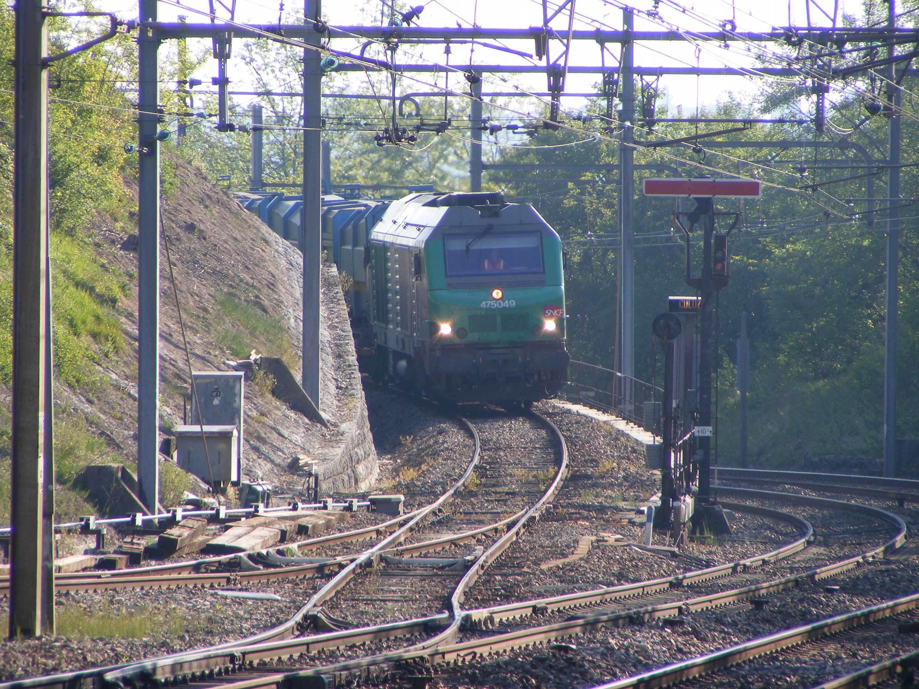 Gare de Collonges . Fort l'Ecluse with waste train approaching